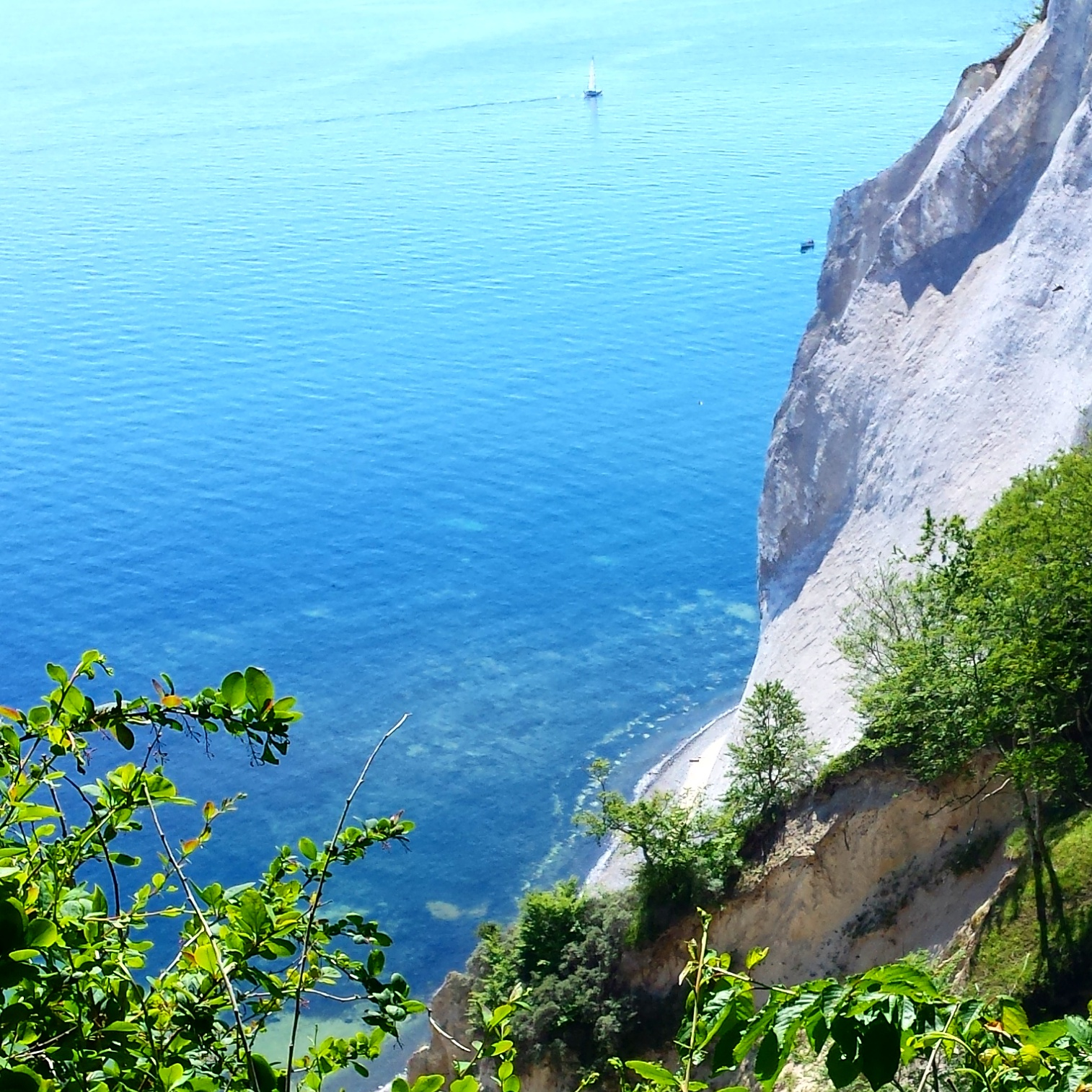 A view on the Møns Klint, Denmark